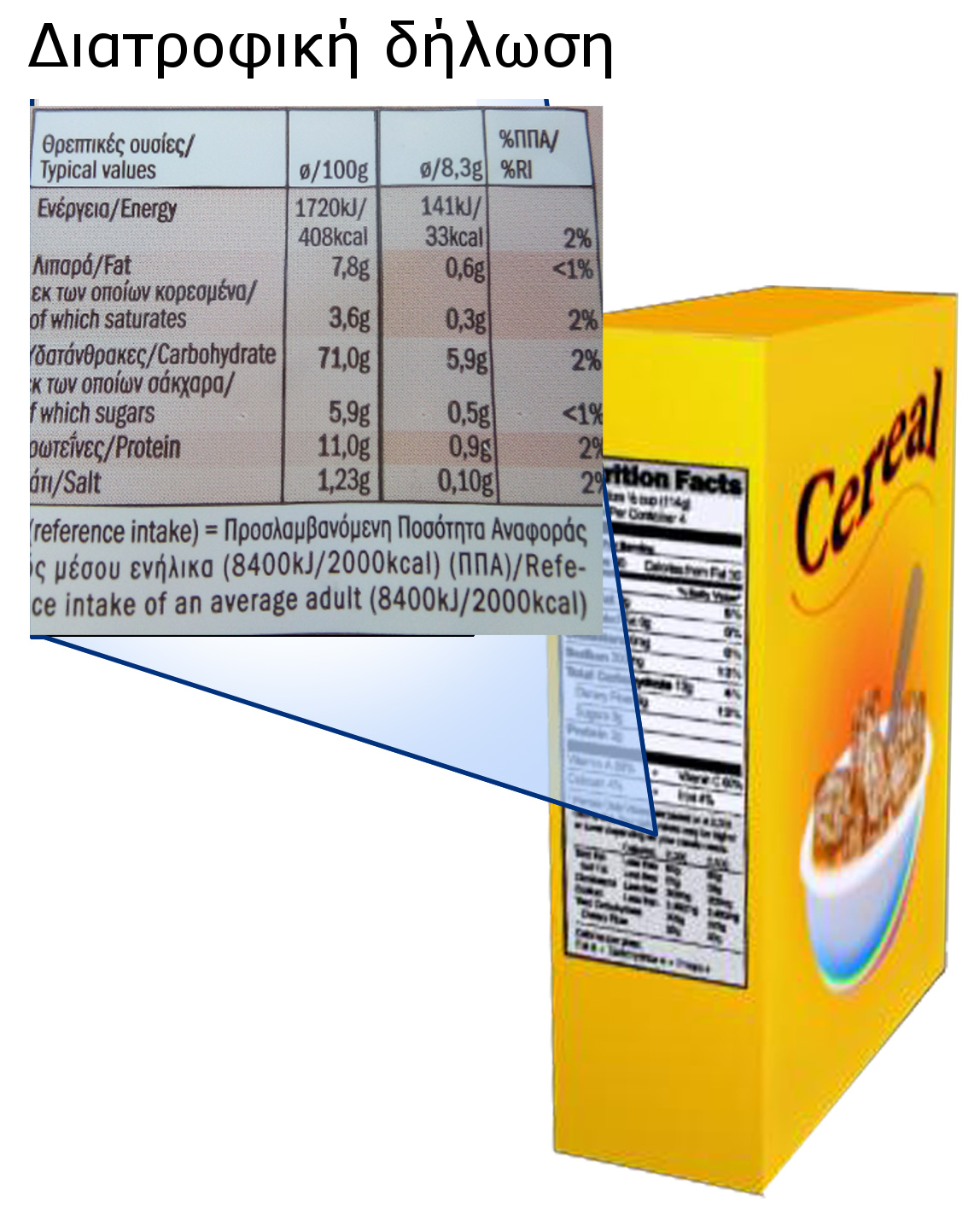 Translation of File:Food Label.png into Greek.